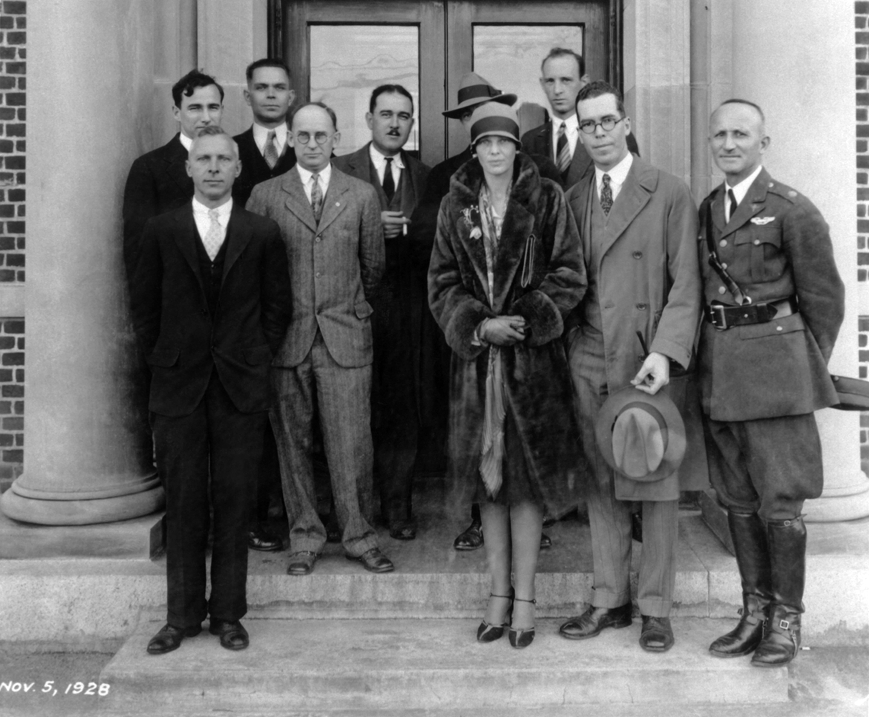 Group photo on steps of Langley Research Building in 1928. front row, left to right: E.A. Meyers, Elton Miller, Amelia Earhart, Henry Reid, and Lt. Col. Jacob W.S. Wuest. Back row, left to right: Carlton Kemper, Raymond Sharp, Thomas Carroll, (unknown person behind A.E.), and Fred Weick. During her tour of Langley in November 1928, Amelia Earhart had part of her raccoon(?) fur coat sucked into the 11 Inch High Speed Tunnel. To her left are Henry Reid and Co. Jacob Wuest, Langley base commander.